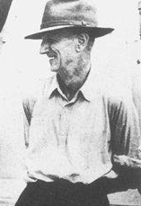 Sir Franklin Charles Gimson, when he met Rear Admiral Sir Cecil Harcourt in Hong Kong. Sir Cecil was about to exercise the sovereign of Hong Kong commissioned by the British Government.